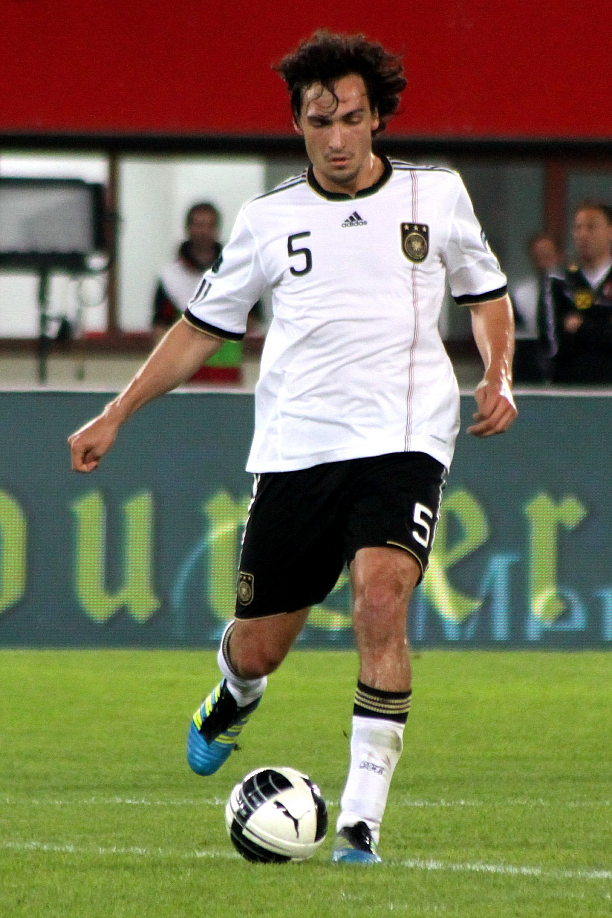 Mats Hummels (Borussia Dortmund), german national football team